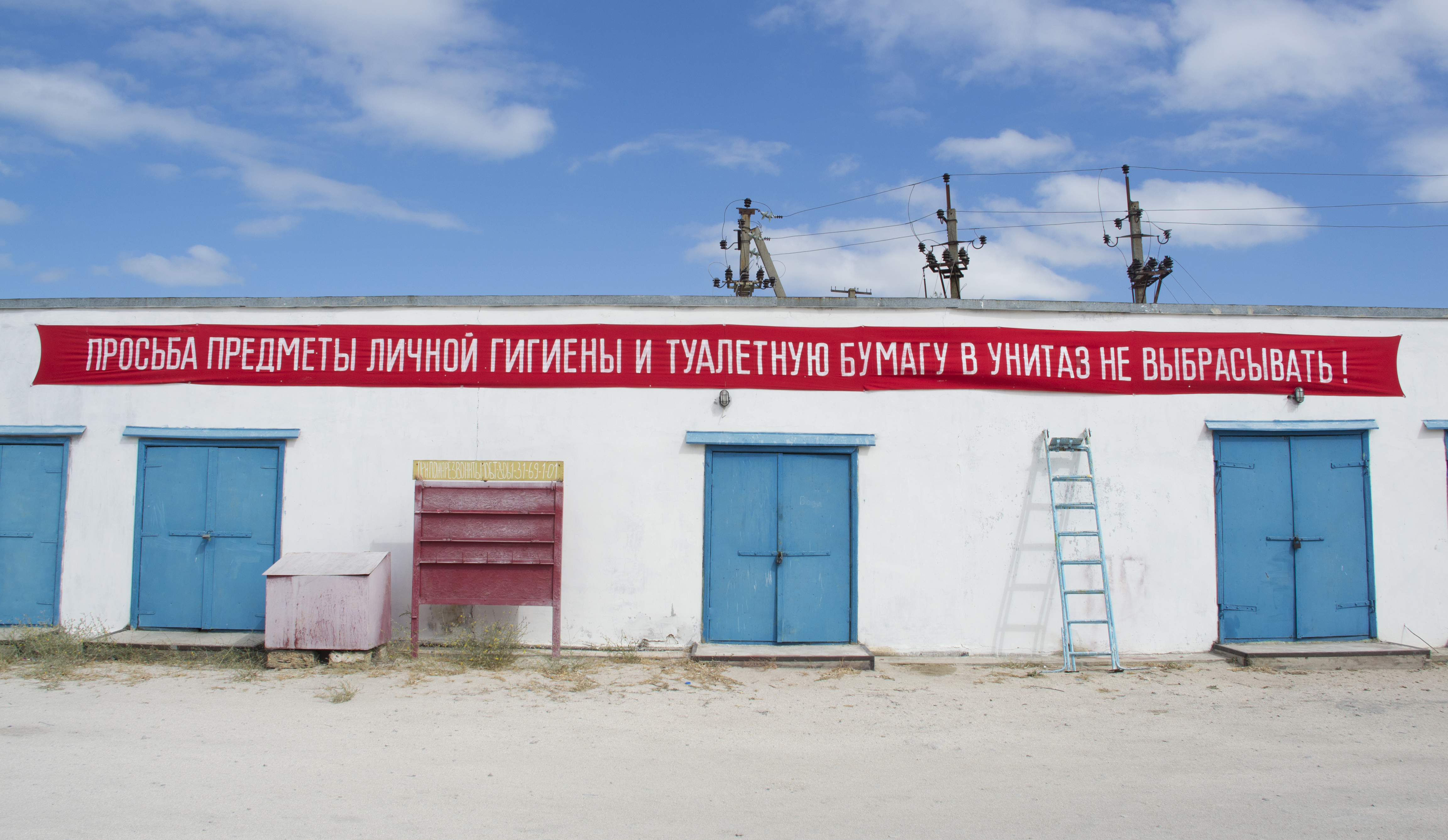 Oleksiy Say. "Request". Installation.